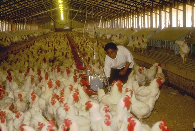 Hardy Meyers chicken operation near Petal, Mississippi.